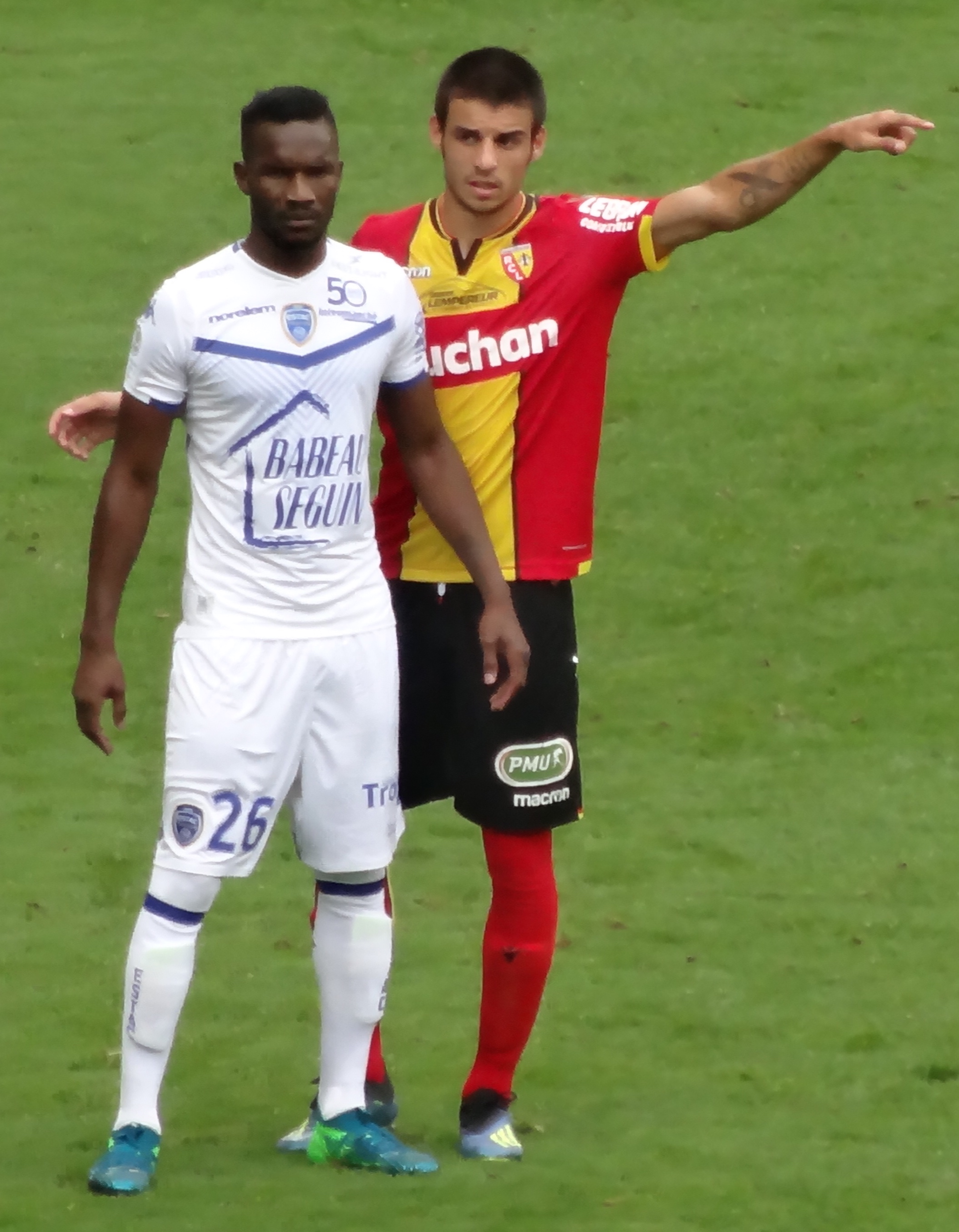 Adama Niane & Aleksandar Radovanović